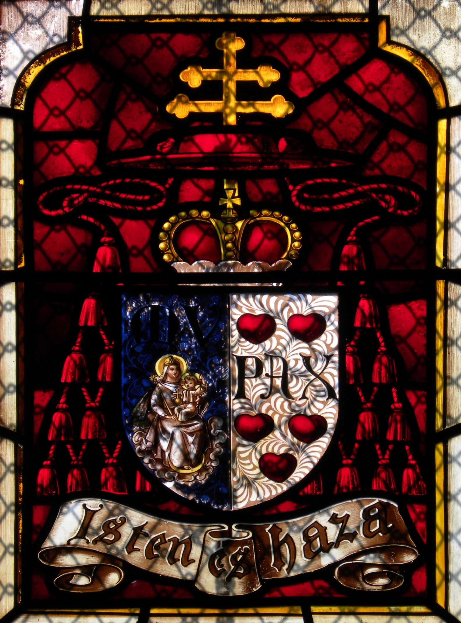 Coat of arms of Kolos cardinal Vaszary, archbishop of Esztergom, Hungary (1891 - 1913). Spišský Štvrtok, Slovakia. Parish church, Zápoľský/Zápolya family chapel, stained-glass window.